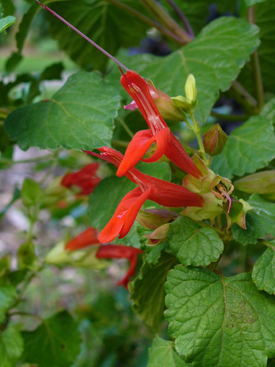 Fairchild Tropical Botanic Garden, Miami Florida